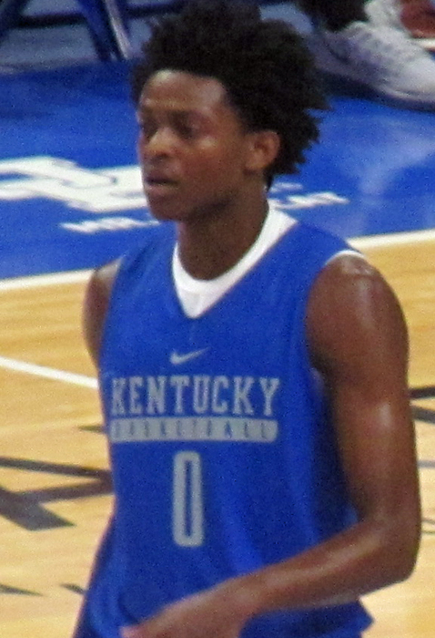 De'Aaron Fox at Kentucky's 2016 Blue-White scrimmage